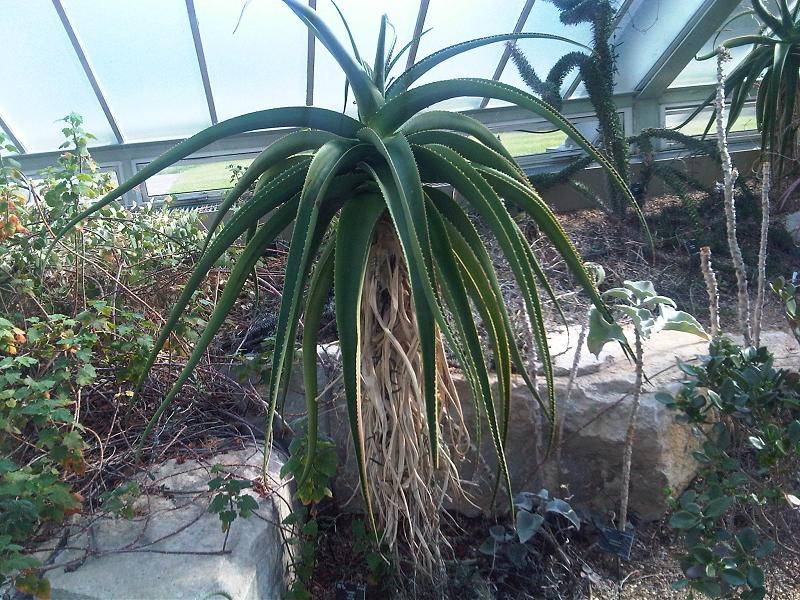 Aloe helenae in Kew Gardens, England.